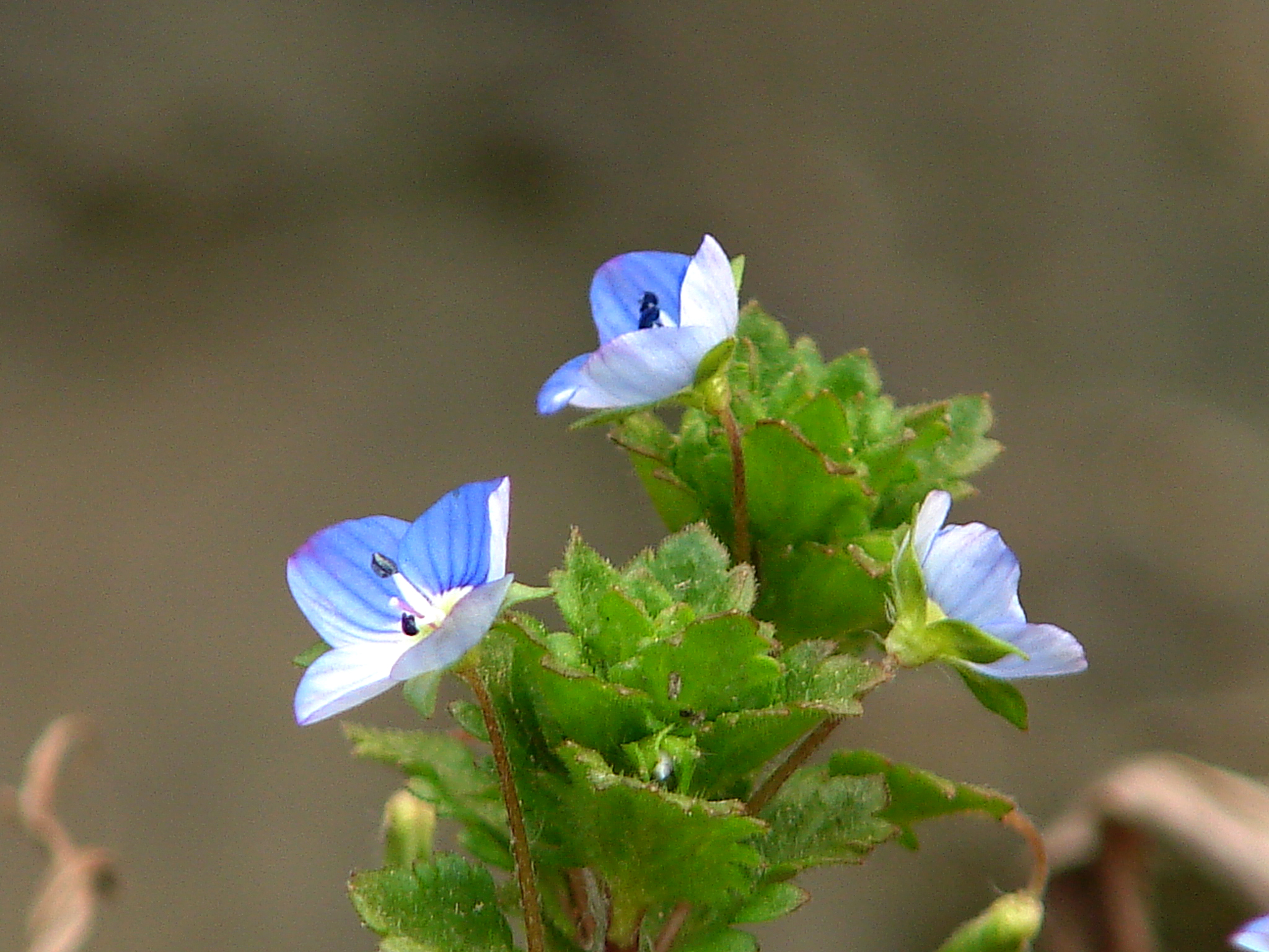 Veronica polita